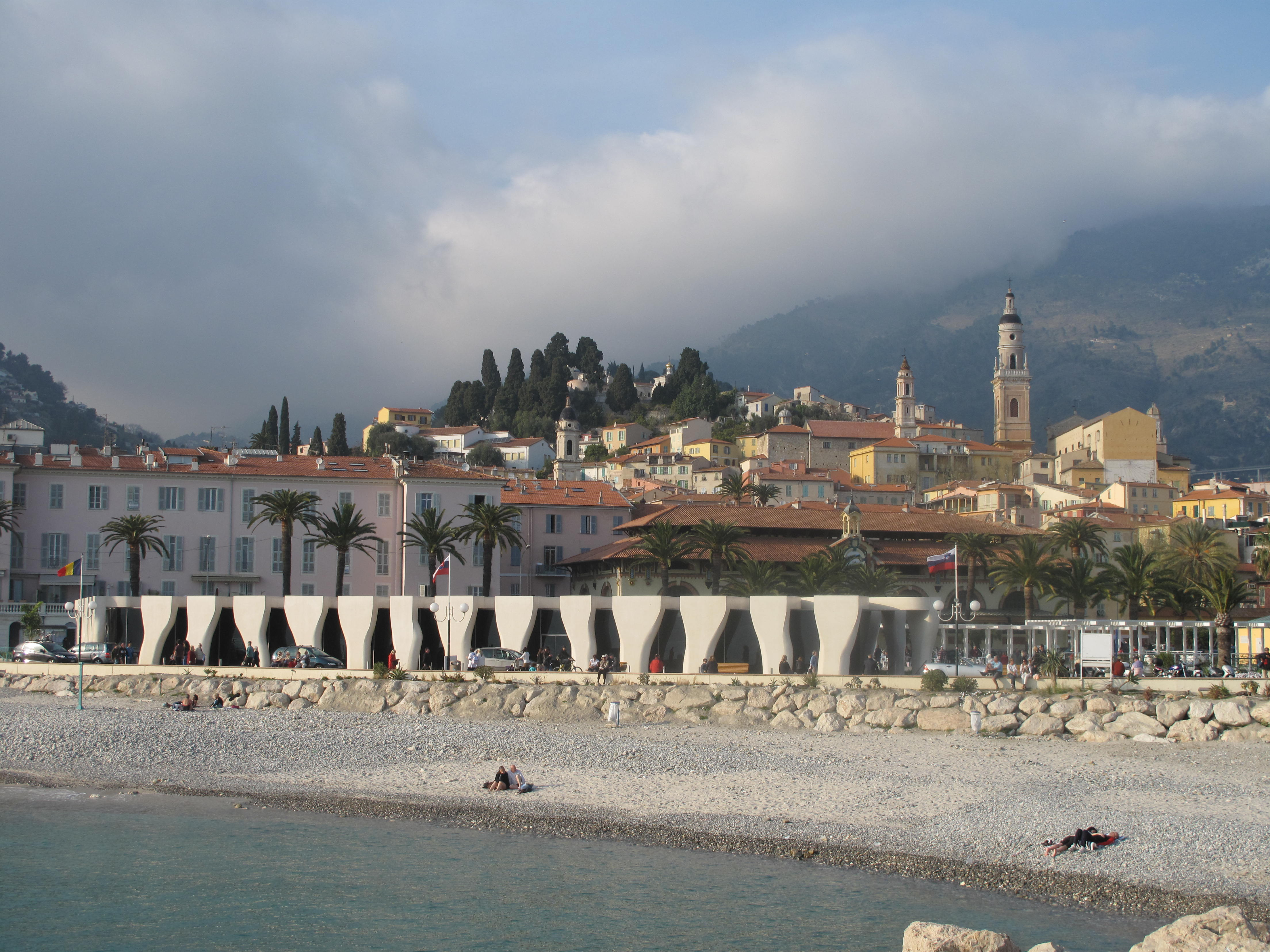 The old town on Menton, with the Saint-Michael cathedral, the cemetary at the top of the hill and in the foreground the new museum Cocteau (Alpes-Maritimes, France).